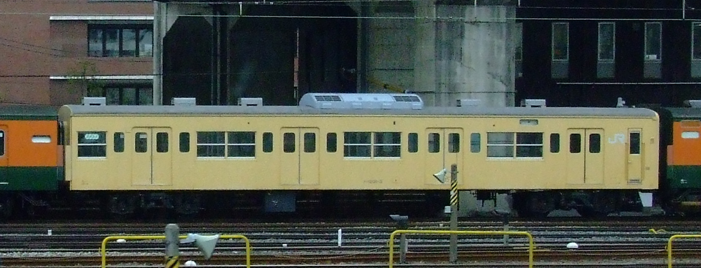 JR East 201 series EMU car KuHa 201-3 awaiting scrapping at Omiya